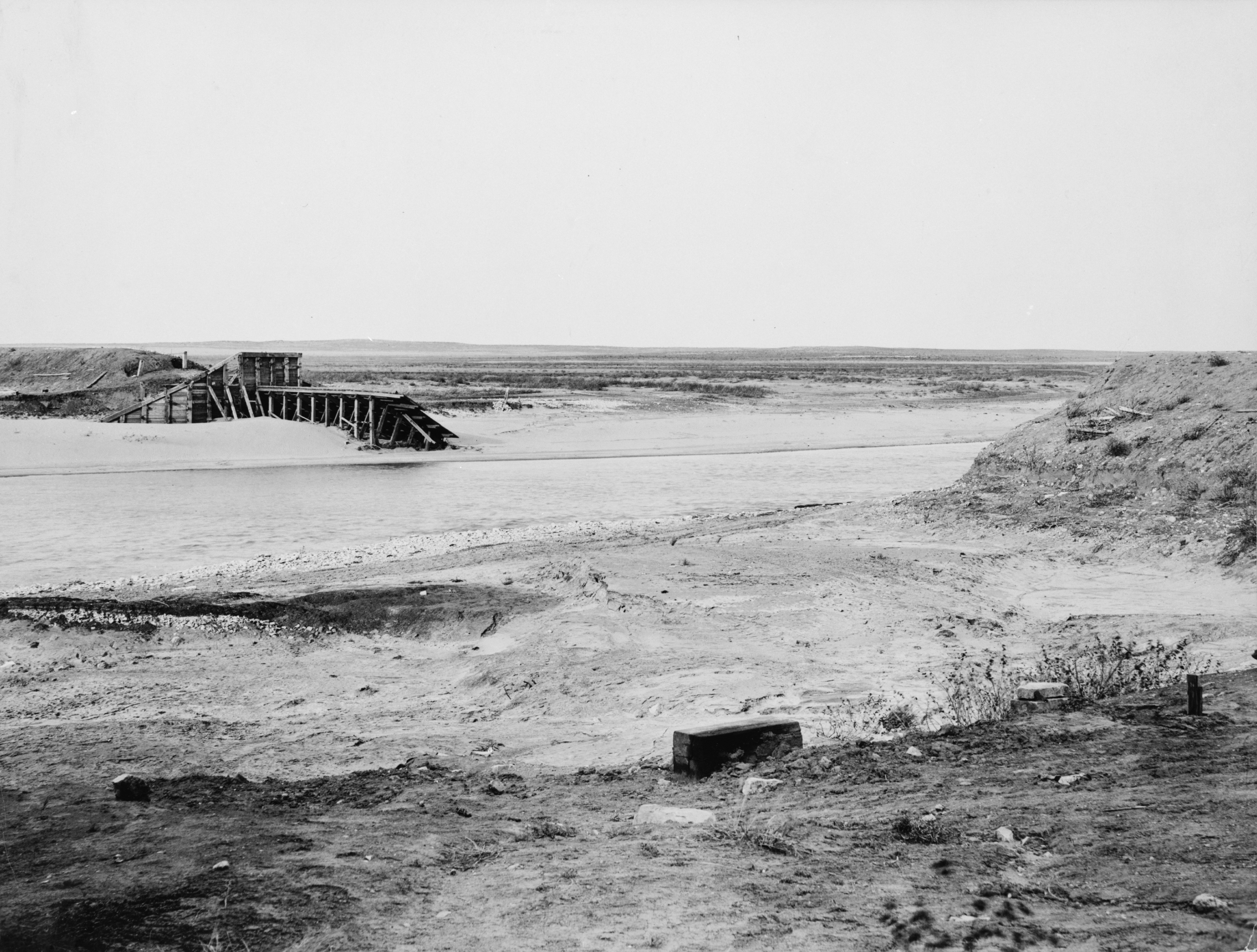 Avalon Dam, New Mexico on 18 December 1905 after floodwaters had washed it out for the second time.